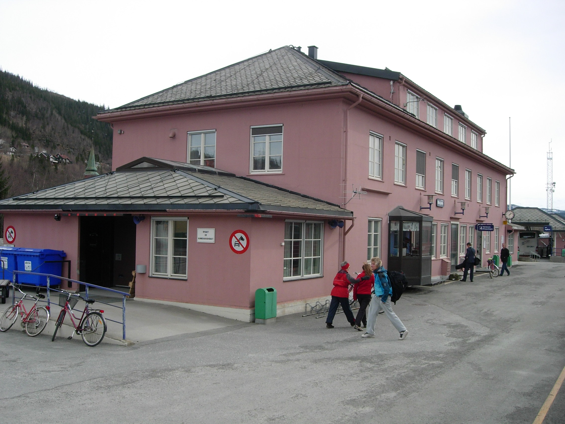 Mosjøen station on Nordlandsbanen, Norway